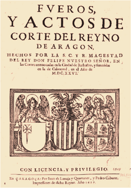 Title page of the Acts of the Aragonese Courts of 1626